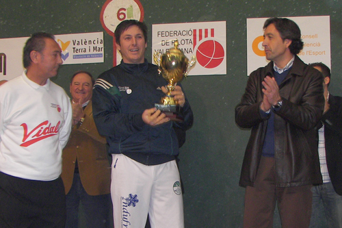 Montesa, winner of the amateur 2008 Individual Valencian Frontó Championship.